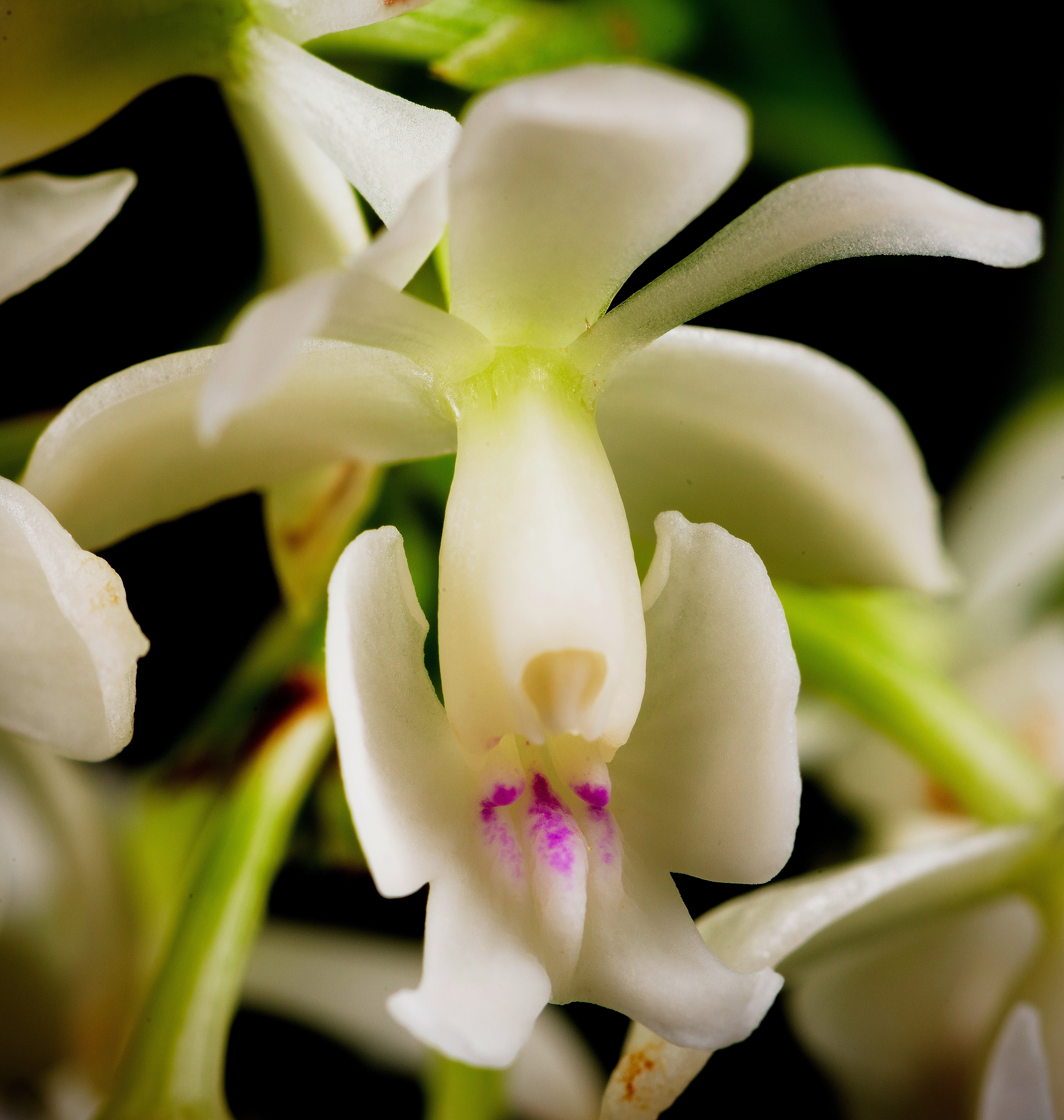 GROUP Bicirrhatum Distribution: Ecuador 83 ECU Found in Southern America Western South America Ecuador